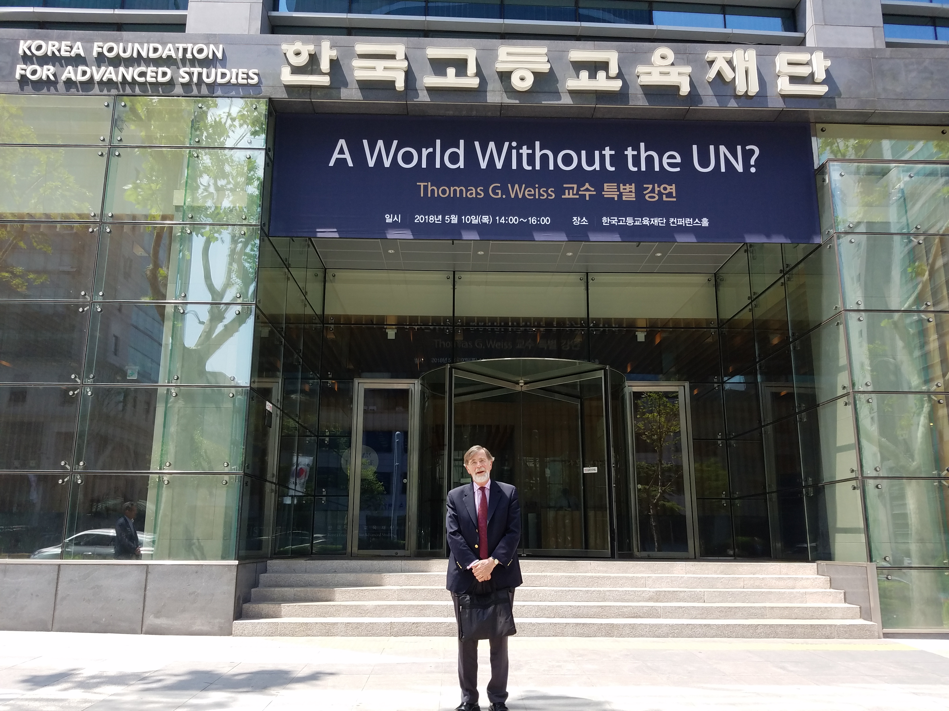 Thomas G. Weiss in Korea promoting his newest book